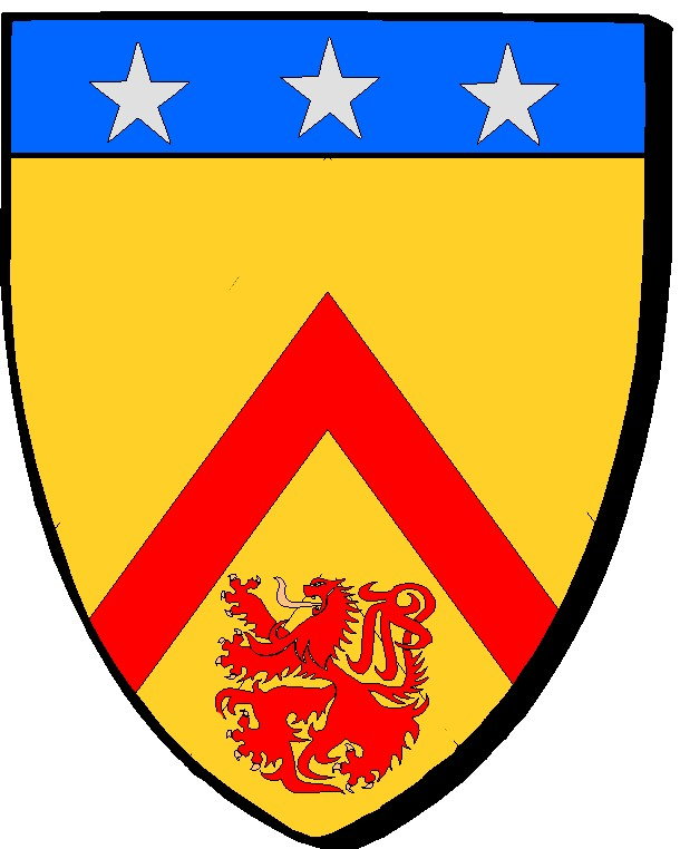 Coat ot Arms Thierry (Luxembourg)